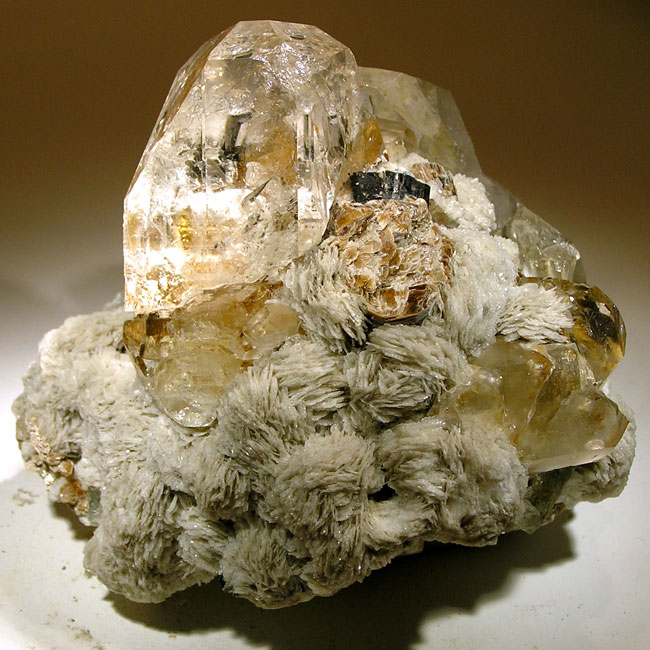 Topaz Locality: Dassu (Dasso; Dusso), Shigar Valley, Skardu District, Baltistan, Northern Areas, Pakistan (Locality at ) This is a huge, absolutely TOP GEM and GLASSY-CLEAR topaz on matrix. The crystal measures 8 cm in height and over 5 across! It was very hard to photograph, so it is far more impressive in person. The crystal has textbook form, superb faces and termination. It is complete all around. You can see right through it as if looking through glass. In fact, you could cut a monster fine stone from it! CONDITION: There is one clean repair, towards the bottom of the crystal, where the crystal broke off and was reattached, and there is a ding at that point, but that is not the important and showy part of the crystal. There is also a ding on one corner and some little contacts below that, but not enough to detract much at all. The important display face IS sensational. The matrix is muscovite with quartz and some other topaz crystals (one of which is actually very nice in its own right!). 11.2 x 10.9 x 8.5 cm